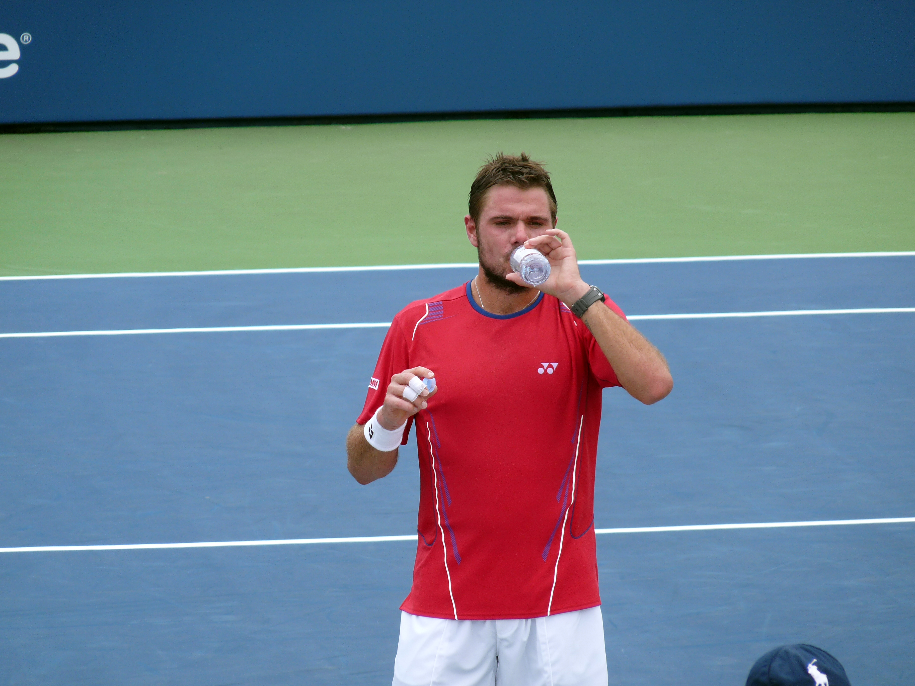 US Open 2013 – Men's Singles 3rd Round (Louis Armstrong Stadium) – Stanislas Wawrinka [9] vs. Cyprus Marcos Baghdatis: 6–3, 6–2, 61–7, 7–67